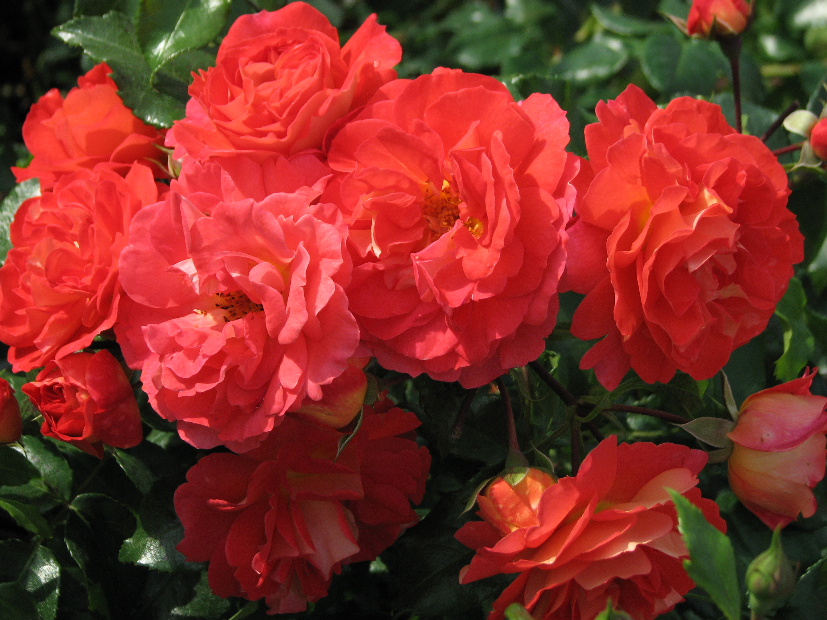 Rosa 'Gebruder Grimm' (Kordes, 2002). From the collection of the Main Botanical Garden of Academy of Sciences in Moscow (Rosarium).